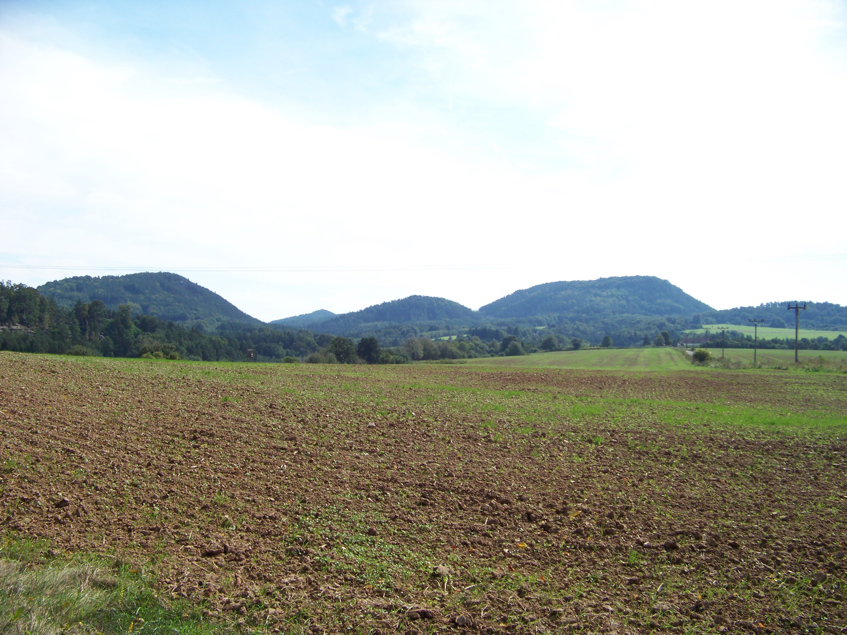 Dubá-Nedamov, Česká Lípa District, Liberec Region, Czech Republic. Vysoký vrch, Malý Beškovský vrch and Velký Beškovský vrch hills, from the road III/2705.